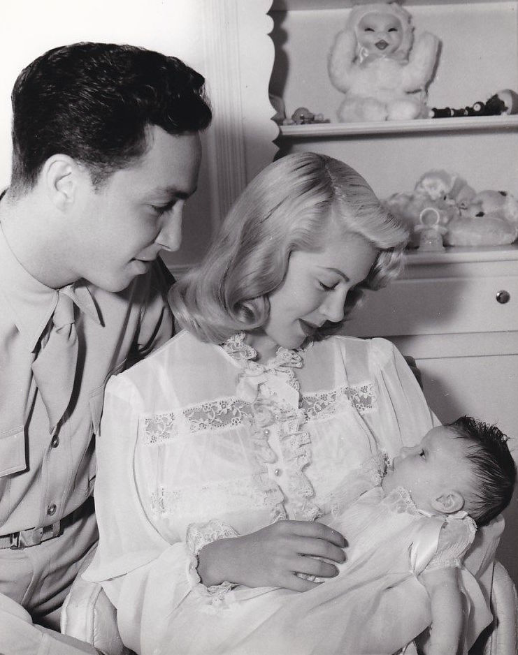 Publicity photo of Lana Turner, Stephen Crane, and newborn daughter Cheryl.